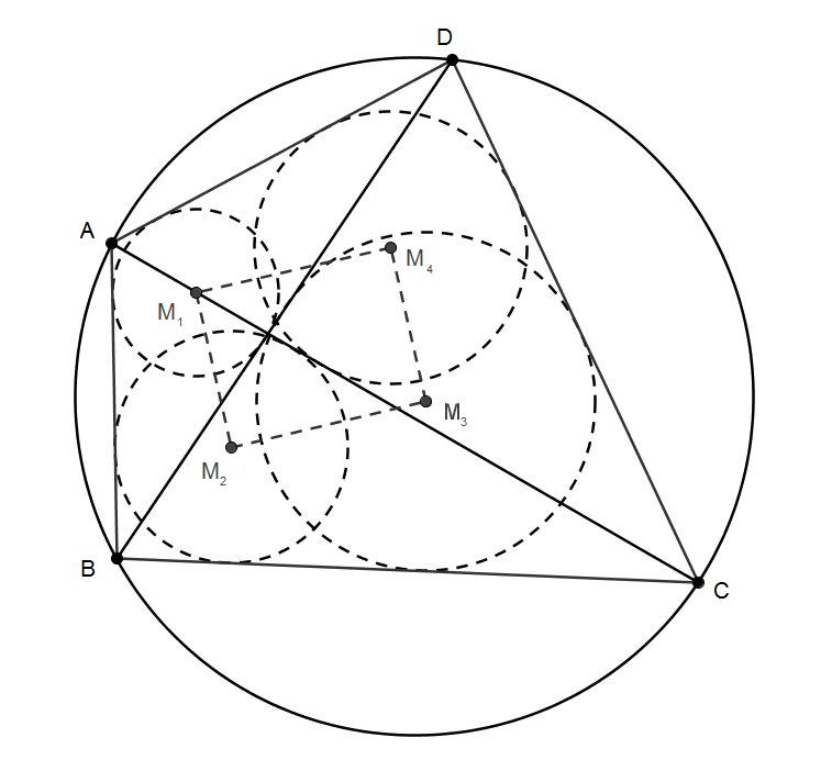 illustration of the japanese theorem (concyclic quadrilateral)